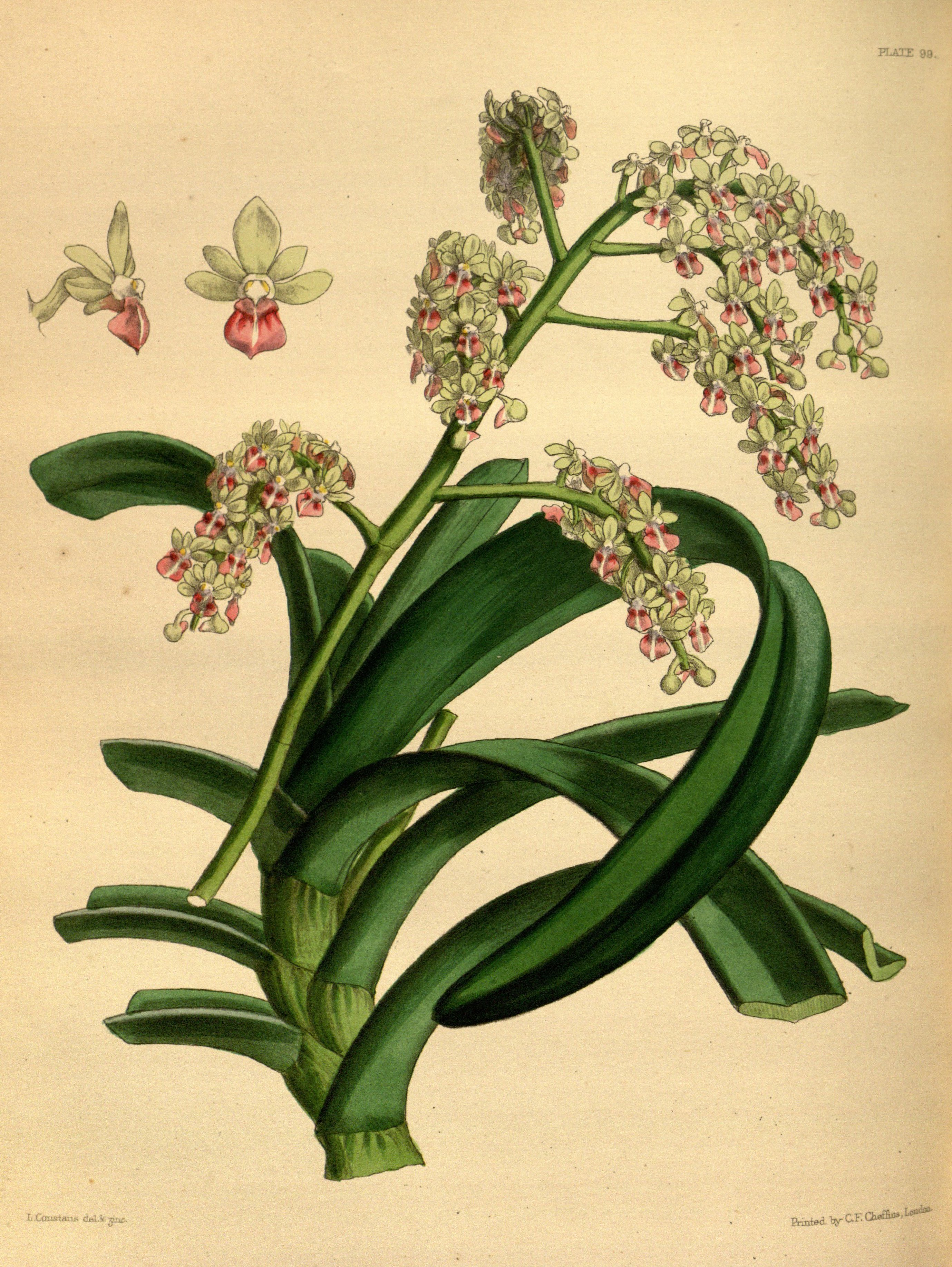 Sarcophyton crassifolium (Lindl. & Paxton) Garay, syn. Cleisostoma crassifolium Lindl. & Paxton